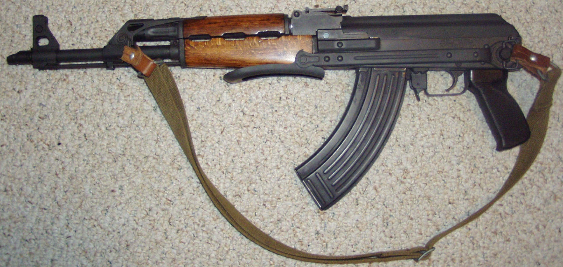 This is the semi-automatic civilian version of the Yugoslavian Zastava M70AB2, built by Century Arms International.